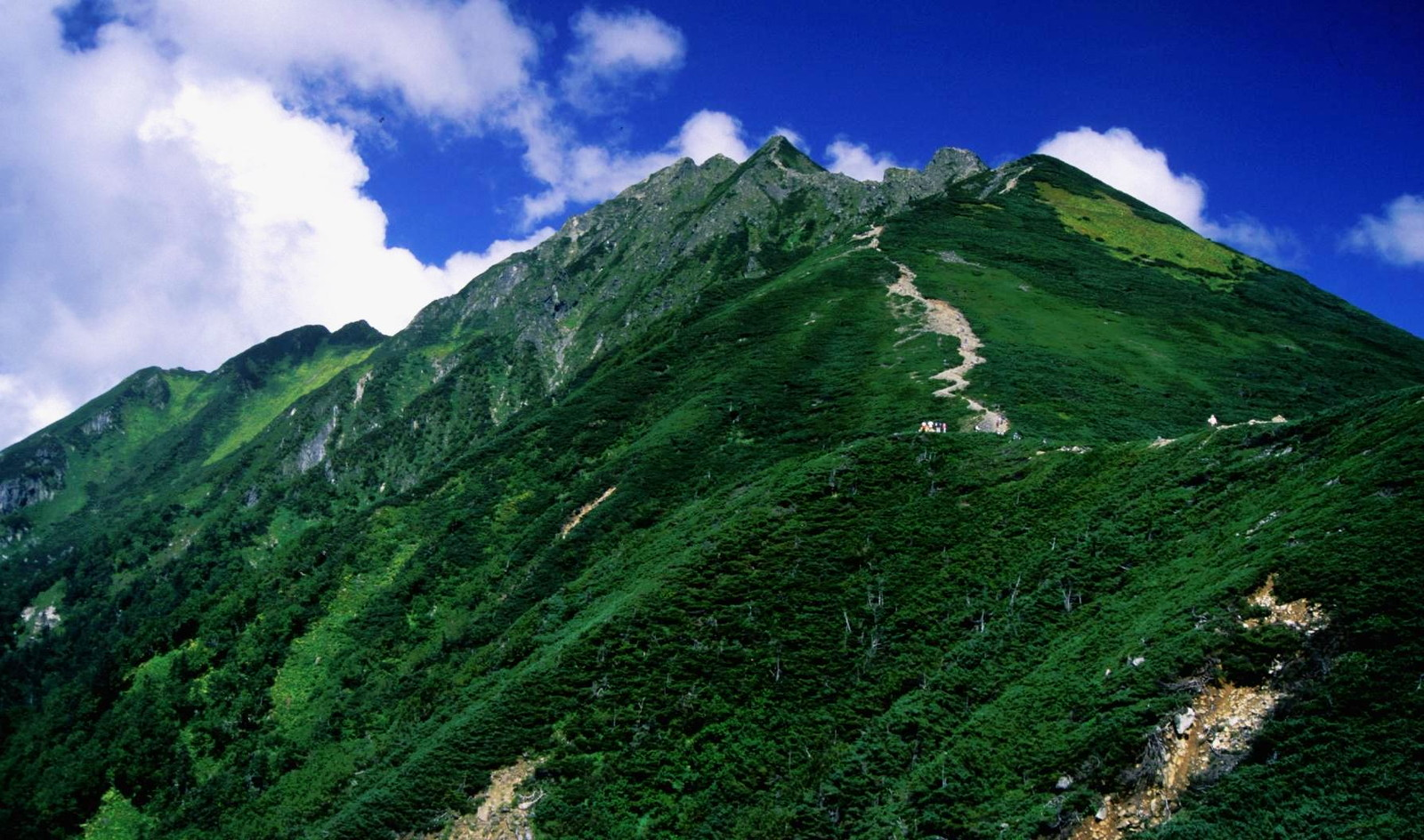 Mount Nishihotaka from_Mount_Maru